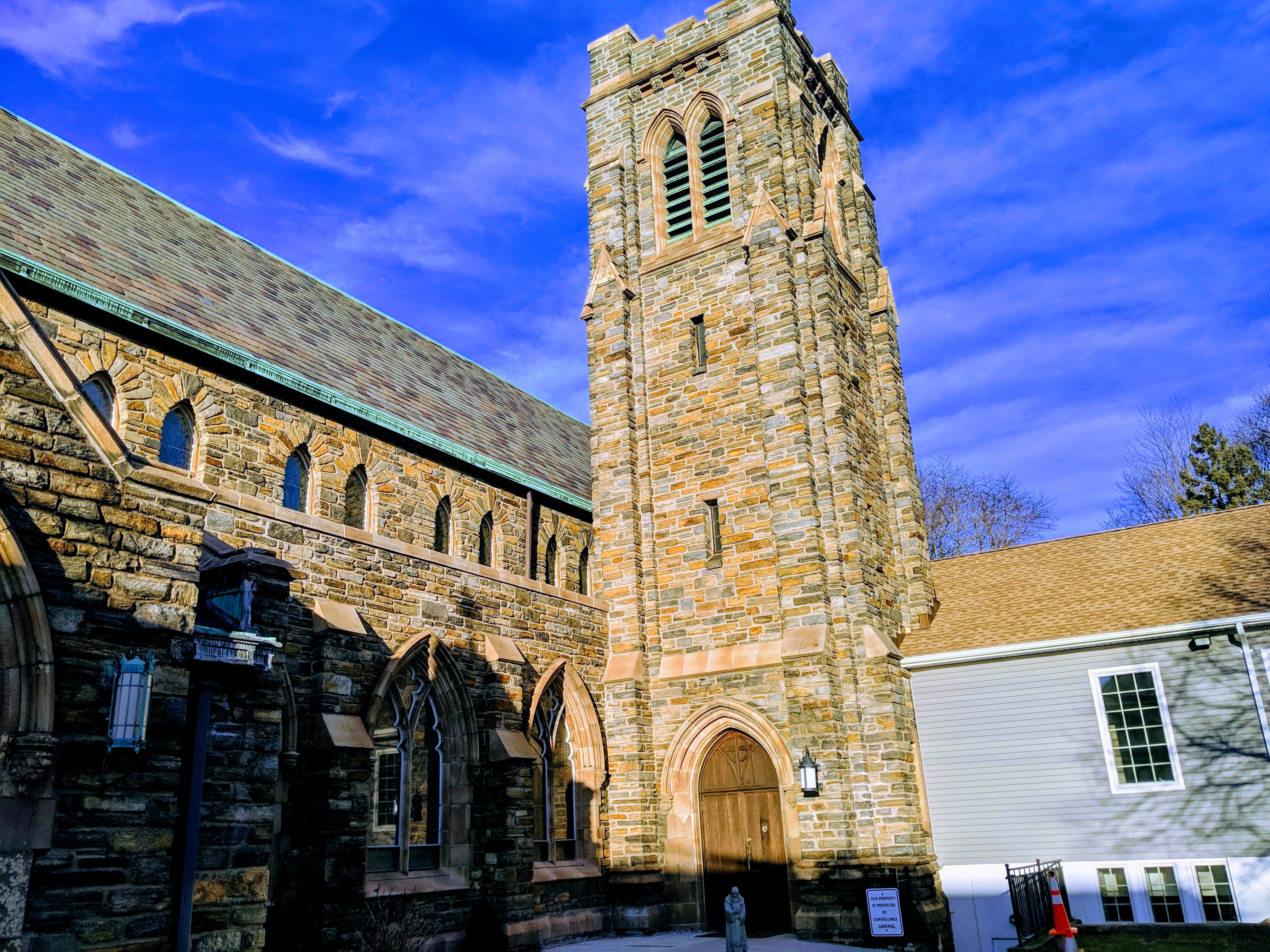 All Saints currently runs the former st. Matthews Episcopal church in Woodhaven